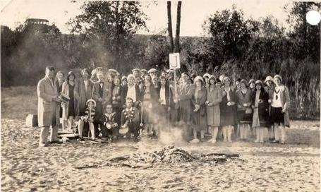 Room J of the Saskatoon Normal School at the wiener roast on the river bank near Yorath Island, 16 September 1930. Saskatchewan Teachers' Federation fonds, 1.0068.08